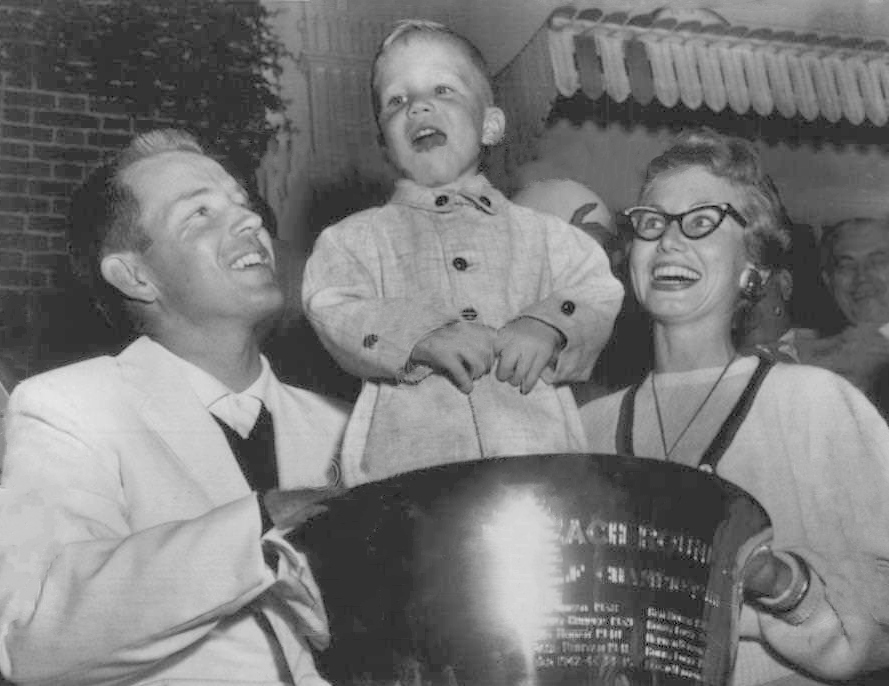 1956 Press Photo Gene Littler & family with huge trophy, Palm Beach Round Robin